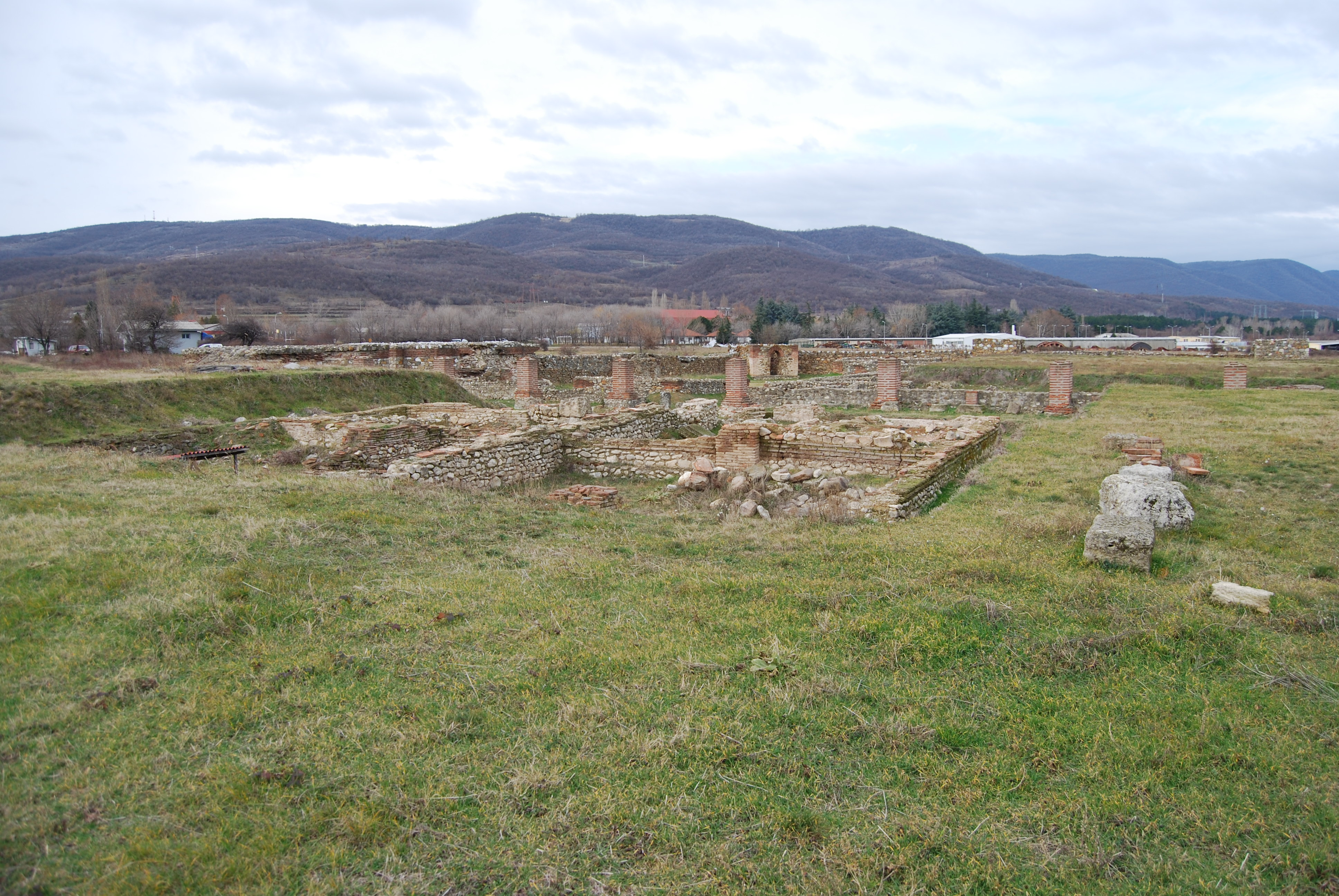 The remains of the walls, Karataš- Diana